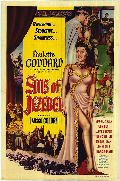 Theatrical release poster for the American film Sins of Jezebel (1953) with Paulette Goddard.